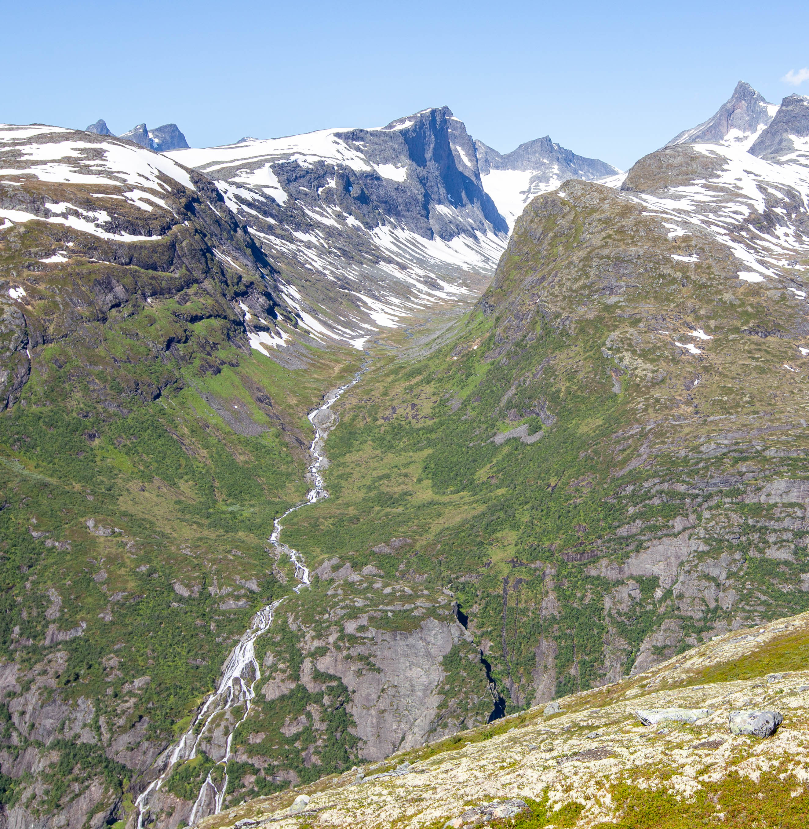 Midtmaradøla seen from east. Picture shows how it flows down midtmaradalen and then out in a waterfall which ends up down in Utladalen. Midtmaradøla is a river in Hurrungane mountain range in Norway